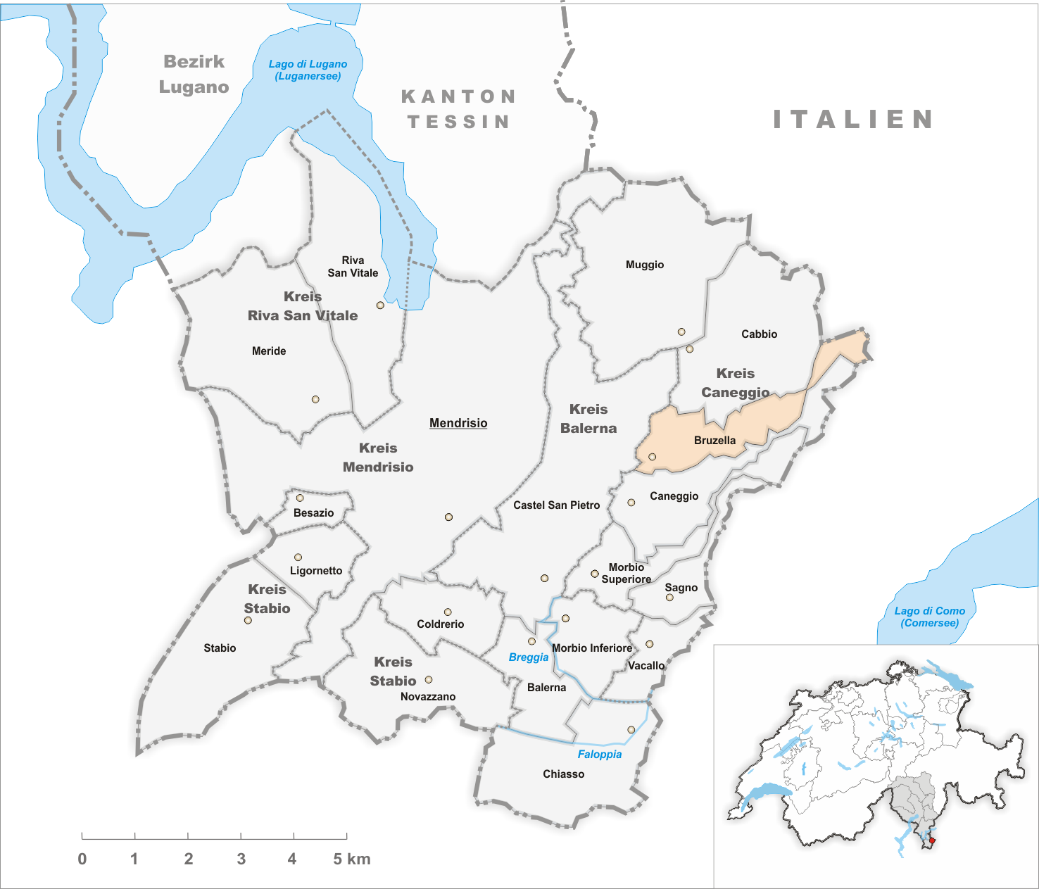 Municipality Bruzella Artist: Tschubby